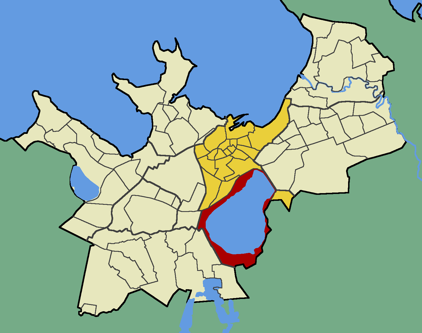 Map of Tallinn (Estonia) with borders of the quarters, Kesklinn district and Ülemistejärve quarter emphasised